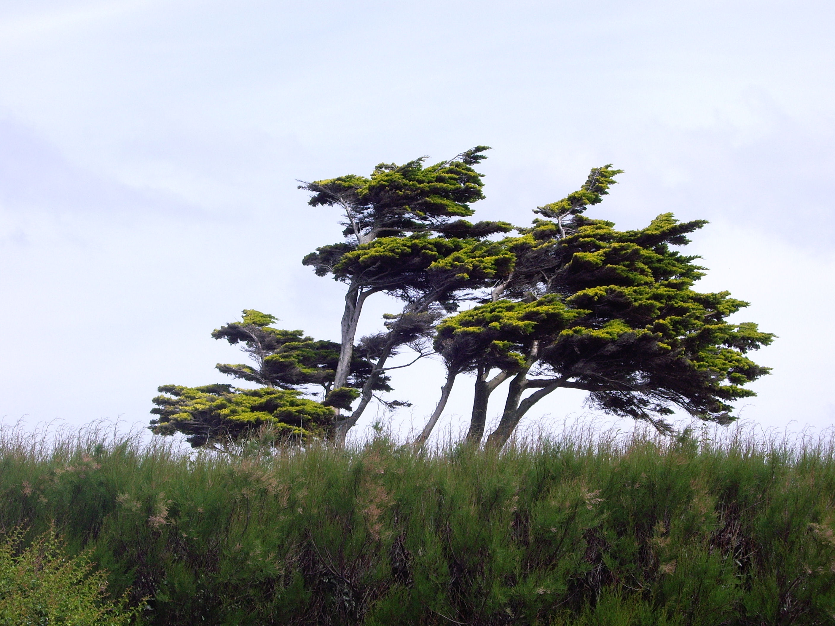 Windswept tree (Cupressus macrocarpa) somewhere on the south coast of England